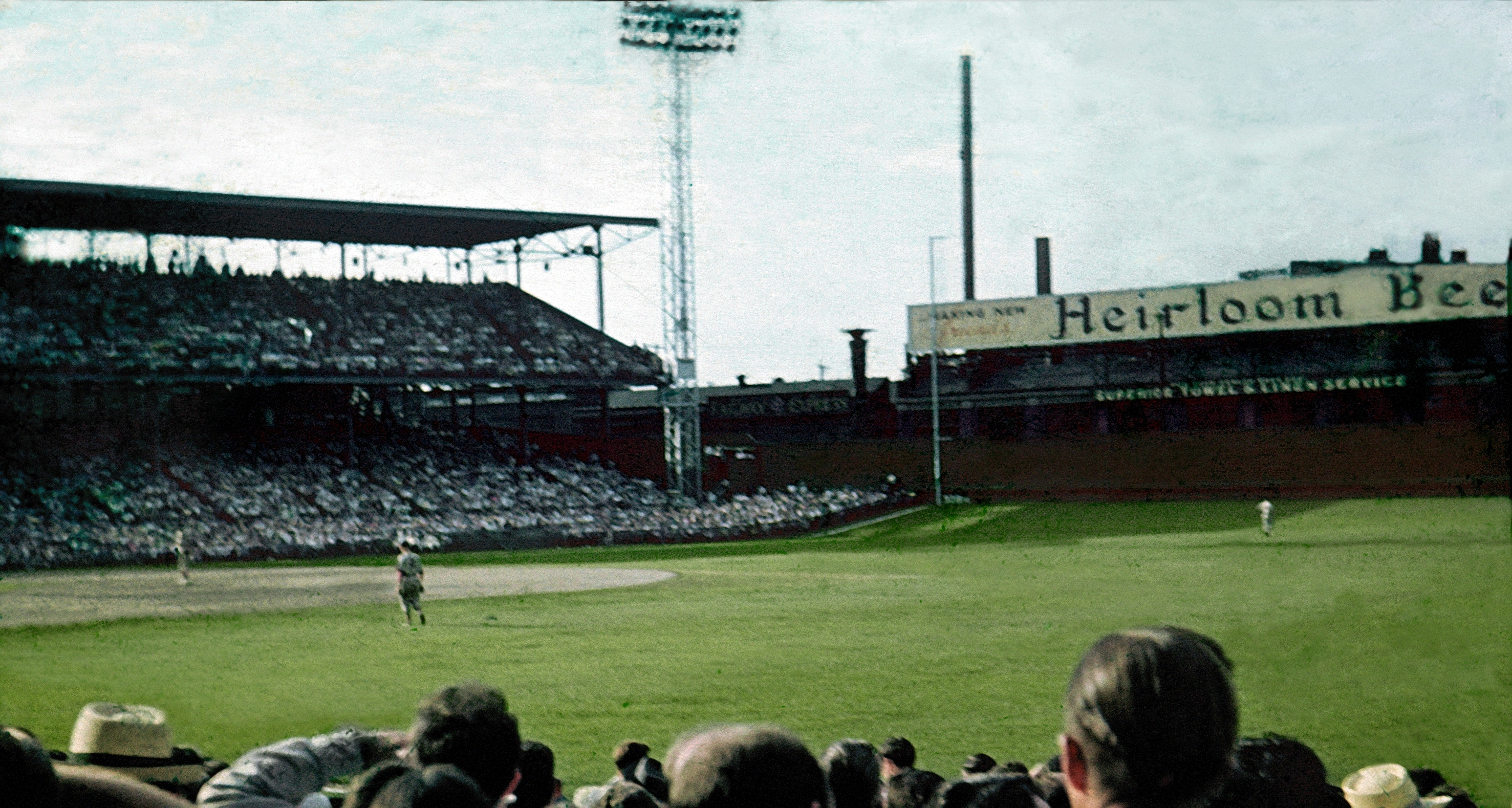 Crosley Field's famous left field terrace in 1946. Photo taken by the father of Rob Lambert.